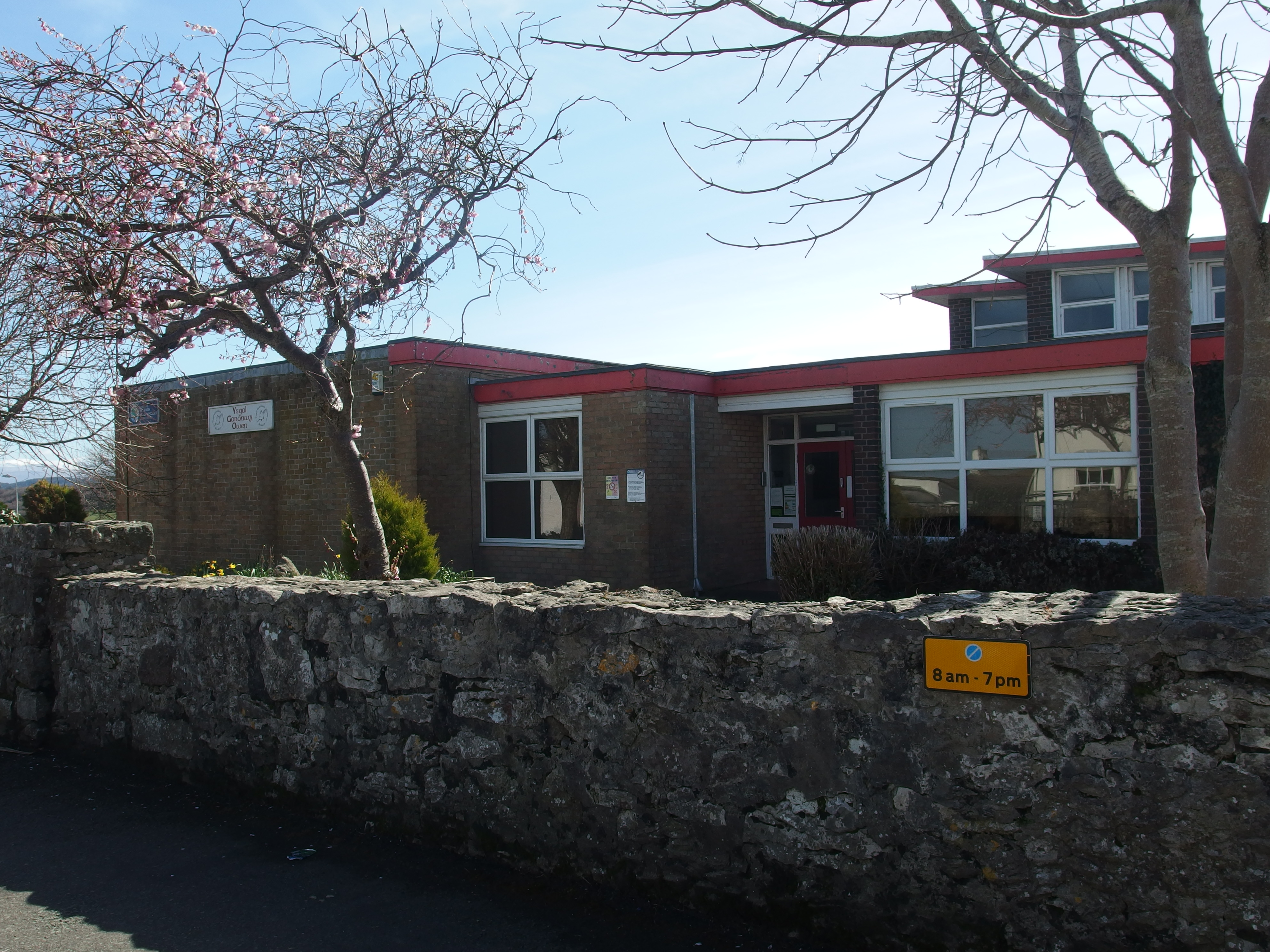 Ysgol Goronwy Owen yn Benllech